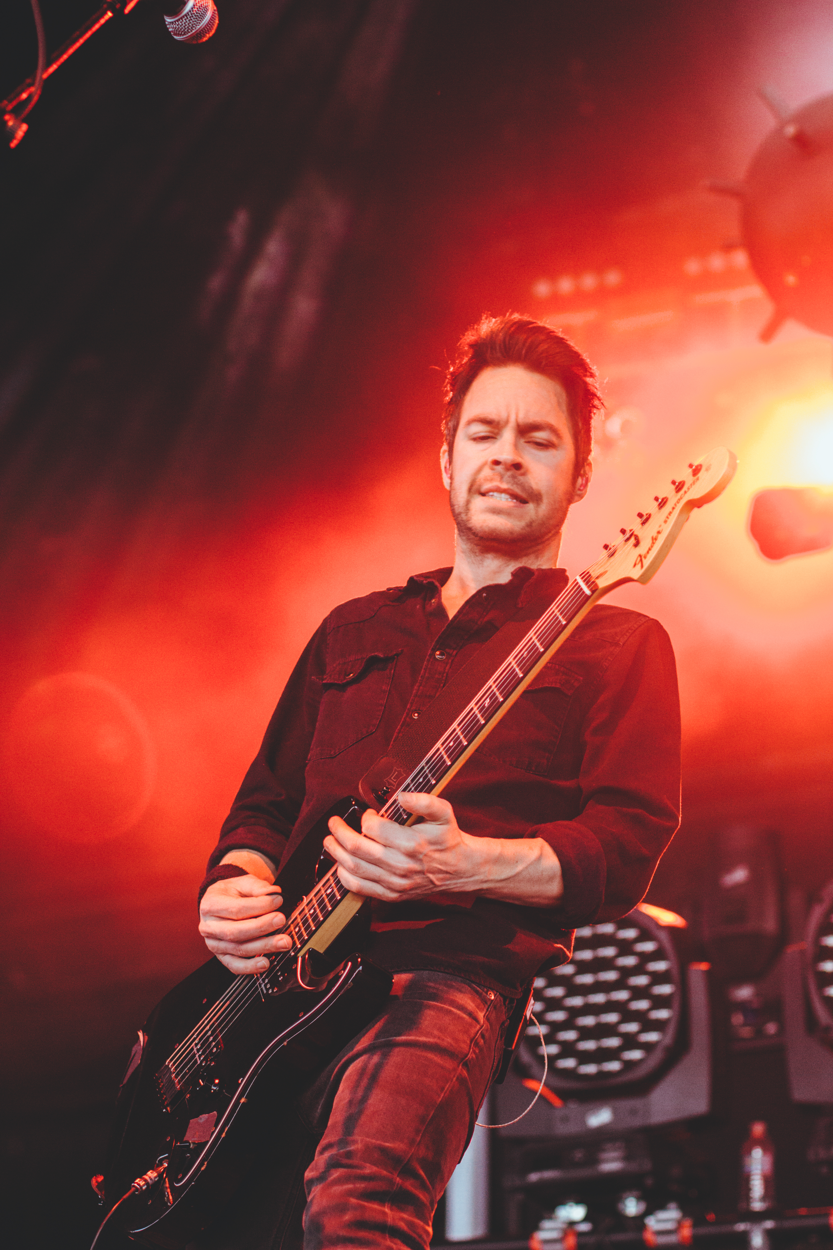 Chevelle-3155